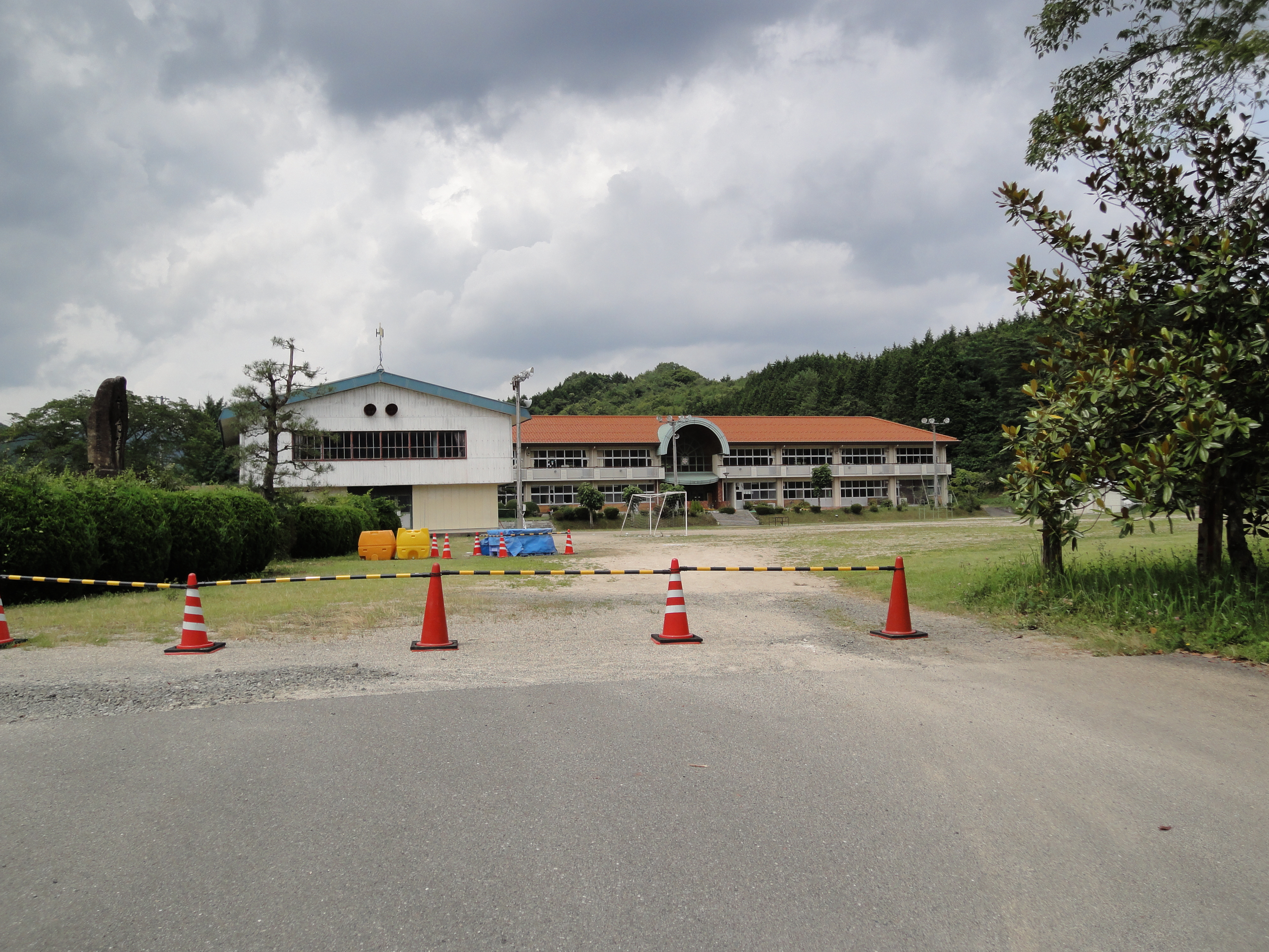 Shobara City Awata Elementary School, Awata, Tojo, Shobara, Hiroshima pref., Japan.